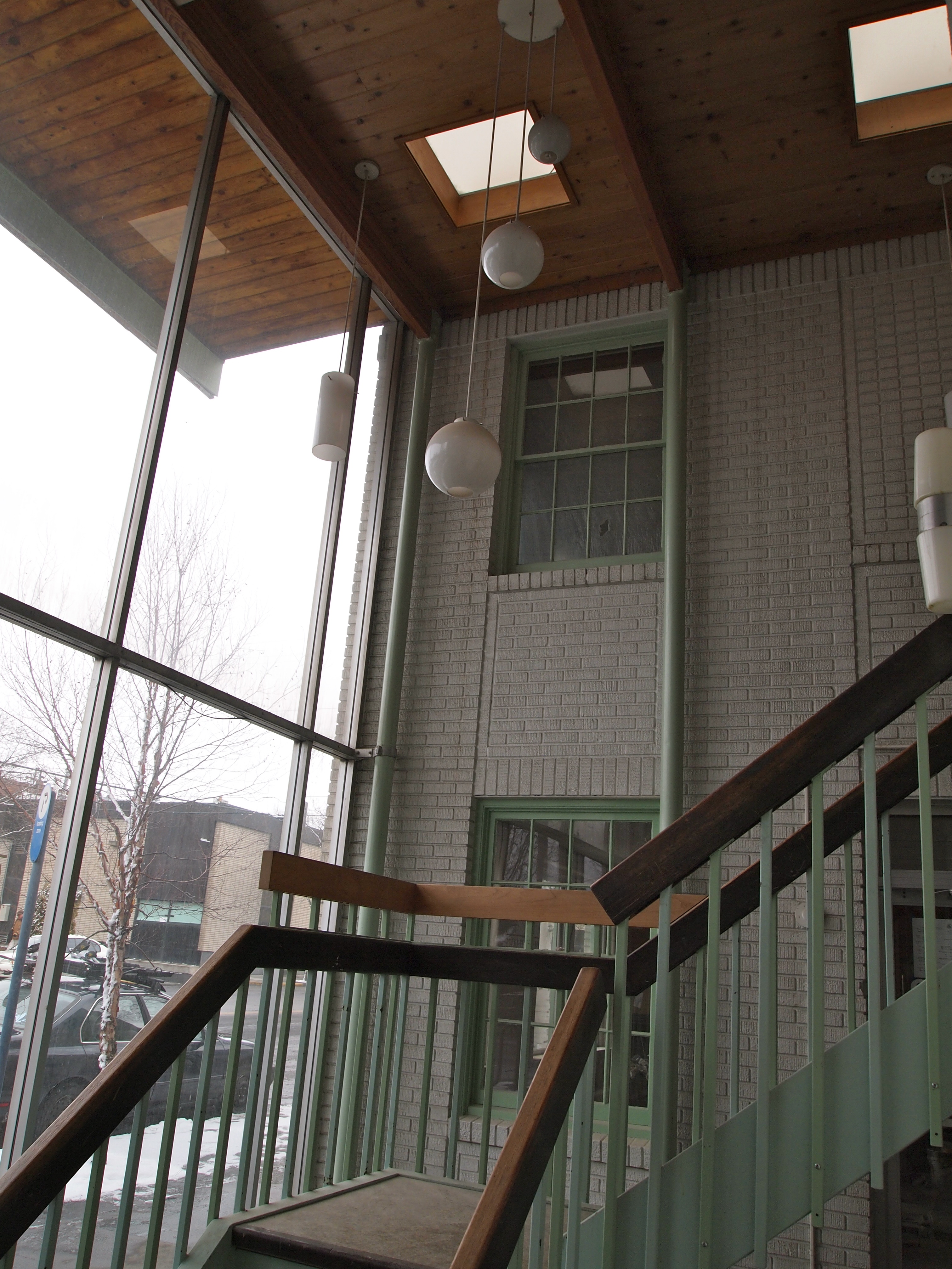 Architecture, Historic Preservation, and Interior Design